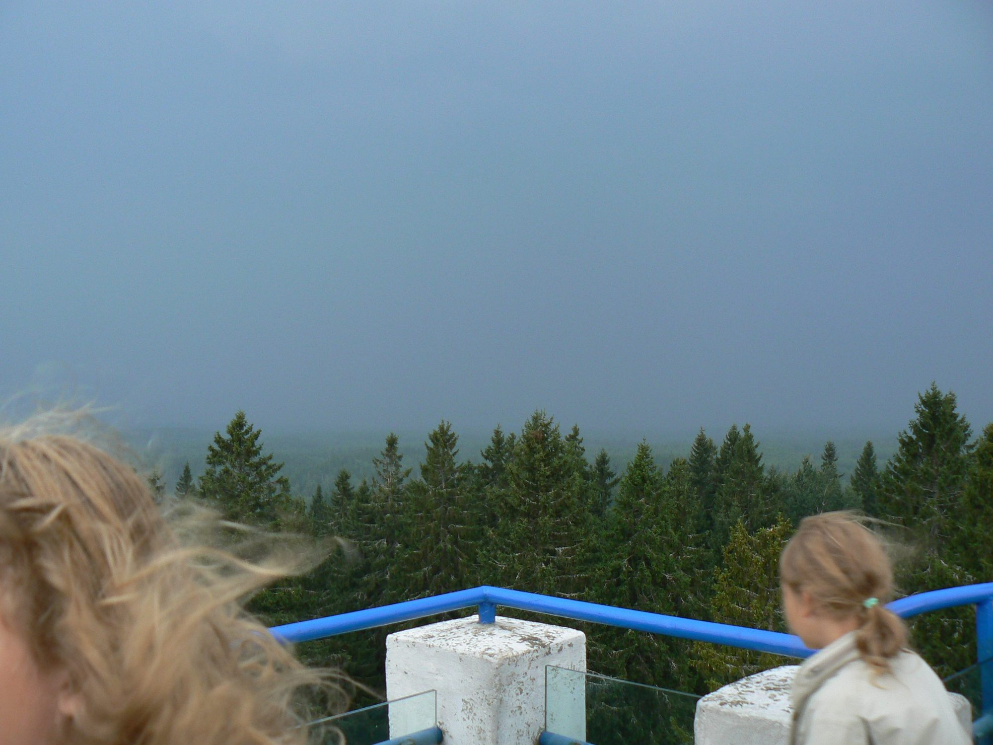 View to the goming storm in Estonia 2010-08-08 (wind speed up to 36,5 m/s)